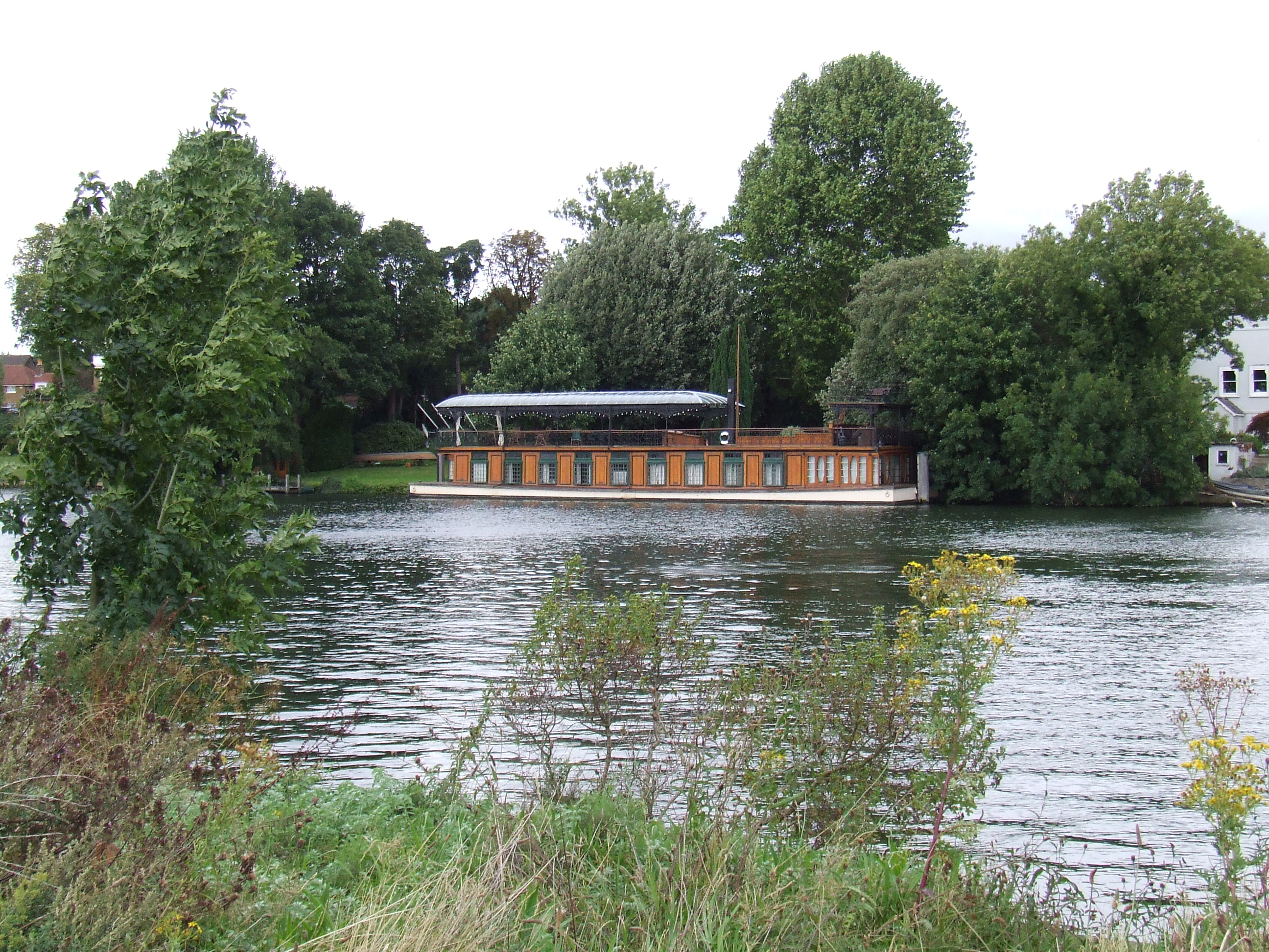 David Gilmour, Astoria Houseboat on Thames, Recording Studio